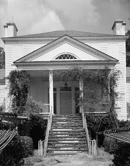 Harrietta Plantation, south elevation, U.S. Routes 17 & 701, McClellanville vicinity (Charleston County, South Carolina) - cropped This file comes from the Historic American Buildings Survey (HABS), Historic American Engineering Record (HAER) or Historic American Landscapes Survey (HALS). These are programs of the National Park Service established for the purpose of documenting historic places. Records consist of measured drawings, archival photographs, and written reports. When reusing please credit: Library of Congress, Prints & Photographs Division, SC,10-MCCLEL.V,4-1 This tag does not indicate the copyright status of the attached work. A normal copyright tag is still required. See Commons:Licensing. This work is in the public domain in the United States because it is a work prepared by an officer or employee of the United States Government as part of that person’s official duties under the terms of Title 17, Chapter 1, Section 105 of the US Code. Note: This only applies to original works of the Federal Government and not to the work of any individual U.S. state, territory, commonwealth, county, municipality, or any other subdivision. This template also does not apply to postage stamp designs published by the United States Postal Service since 1978. (See § 313.6(C)(1) of Compendium of U.S. Copyright Office Practices). It also does not apply to certain US coins; see The US Mint Terms of Use. This file has been identified as being free of known restrictions under copyright law, including all related and neighboring rights. This image or media file contains material based on a work of a United States Department of the Interior employee, created as part of that person's official duties. As a work of the U.S. federal government, such work is in the public domain in the United States. See the Department of the Interior copyright policy for more information.